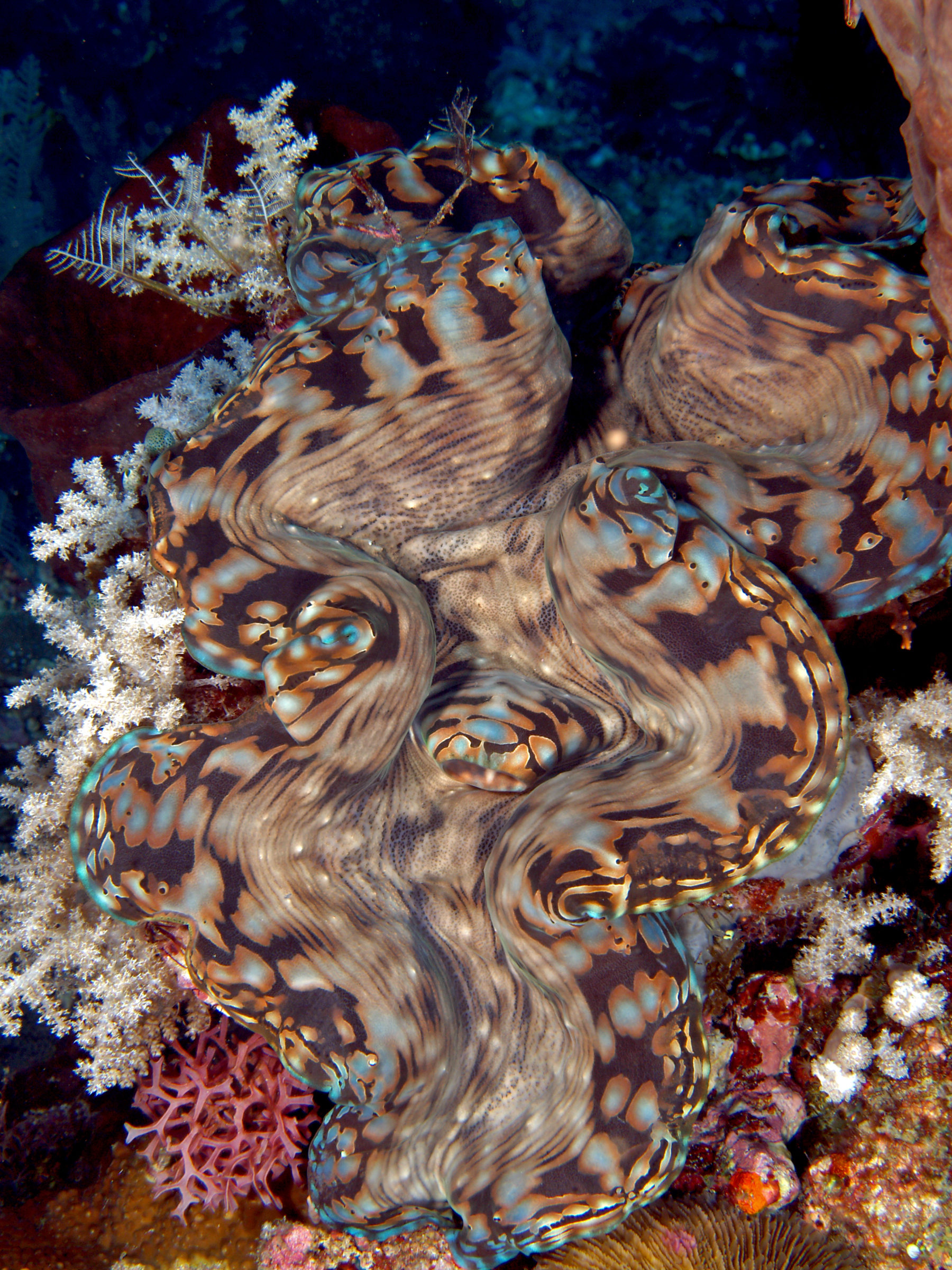 Giant clam near Manatuto, East Timor